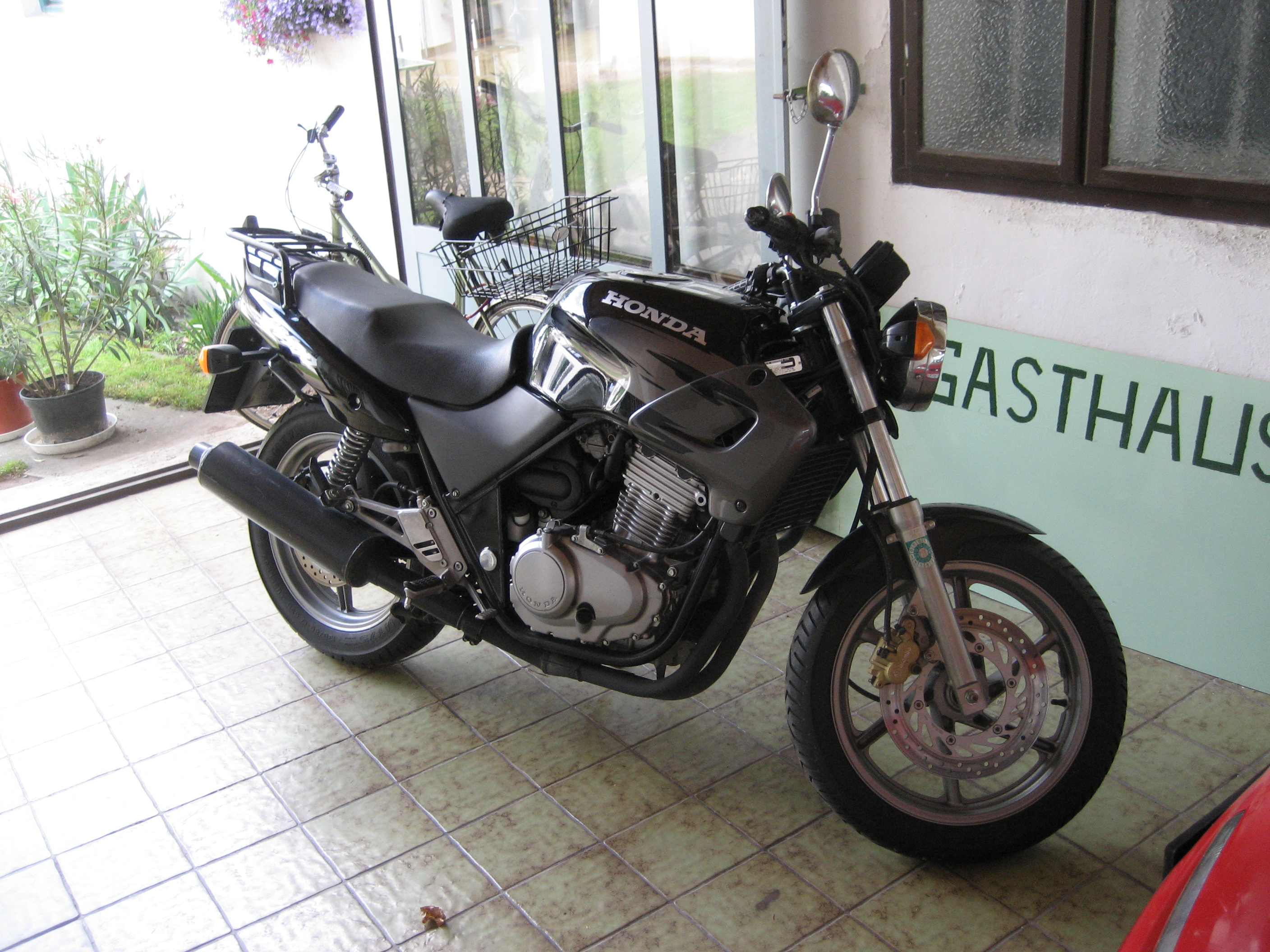 Honda CB500